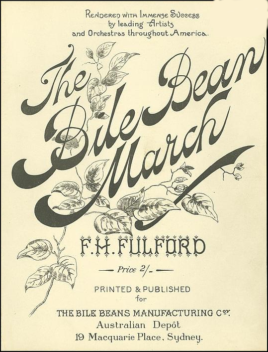 Music written by F. H. Fulford to promote Bile Beans.